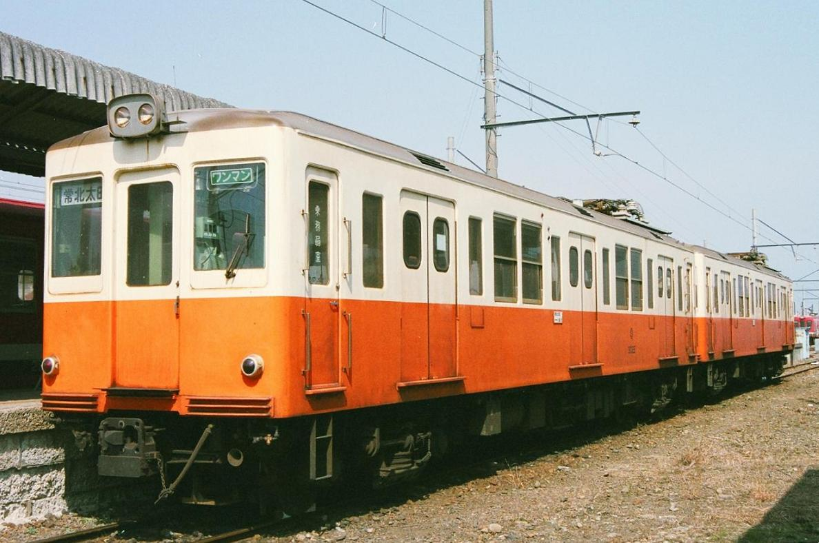 Hitachi-Dentetsu Railway Type 3000 EMU(Japan).